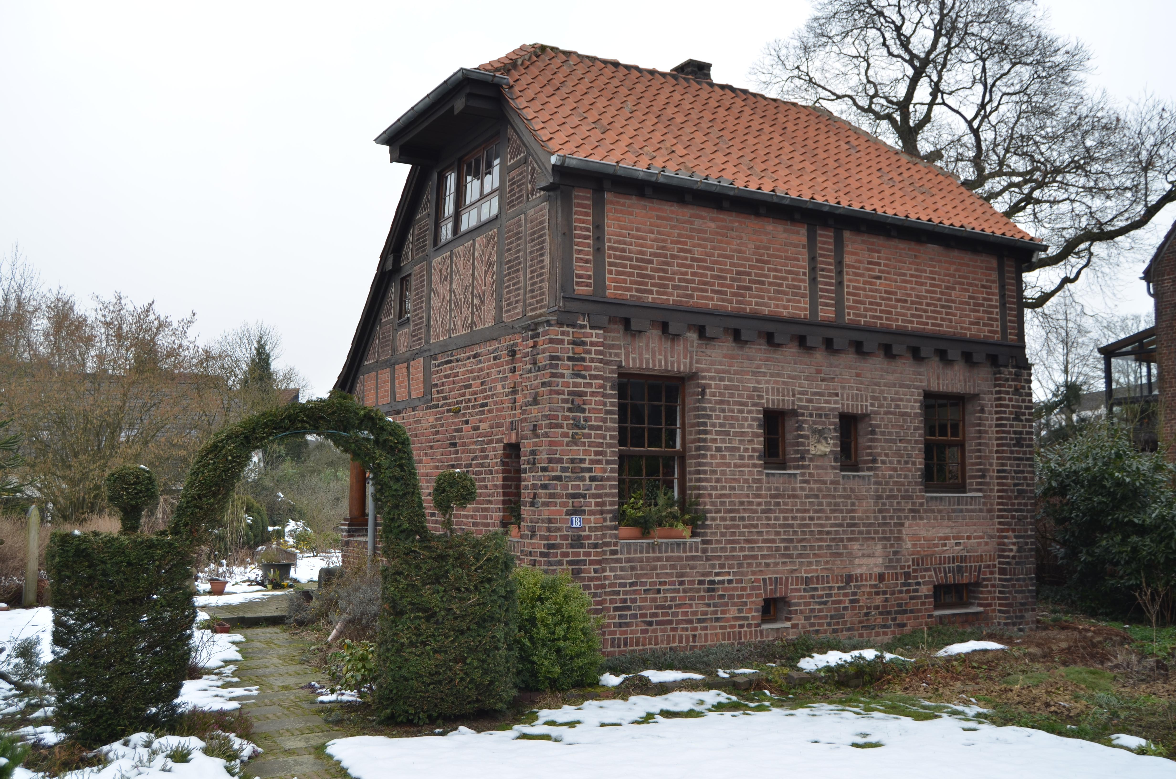 Krefeld (North Rhine-Westphalia, Germany) – district Verberg – house built by Karl Buschhüter for his mother in 1910 Karl Buschhüter (1872–1956) DescriptionGerman architectDate of birth/death 3 September 1872 21 August 1956 Location of birth/death – KrefeldWork location Krefeld Authority control : Q1730603 VIAF: 69728058 ISNI: 0000 0000 6678 5868 ULAN: 500077704 GND: 118914782 RKD: 247628 creator QS:P170,Q1730603 This image shows a heritage building in Germany, located in the North Rhine-Westphalian city Krefeld (no. 164). This photograph was taken with a Nikon D7000